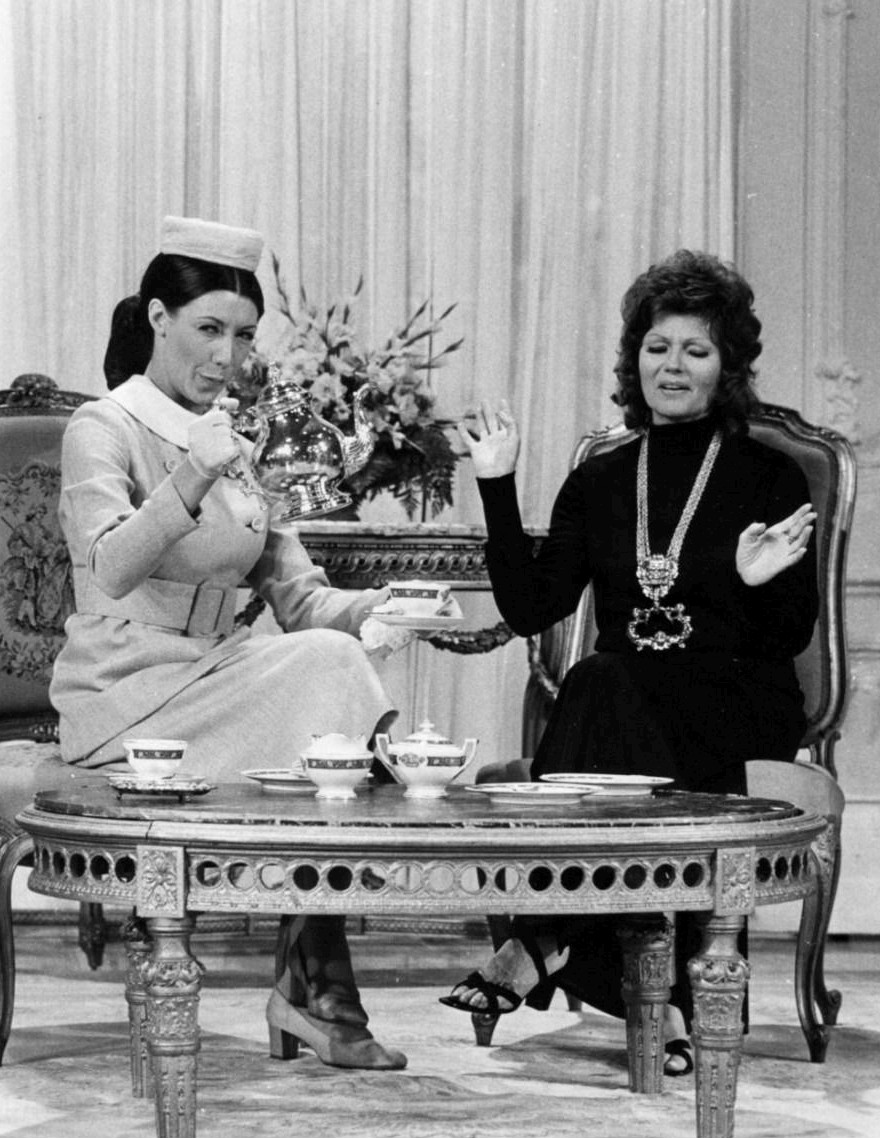 Publicity photo of Lily Tomlin as Mrs. Earbore, the Tasteful Lady, and Rita Hayworth from the television program Rowan & Martin's Laugh-In.